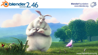 Open Screen of Blender 2.46.